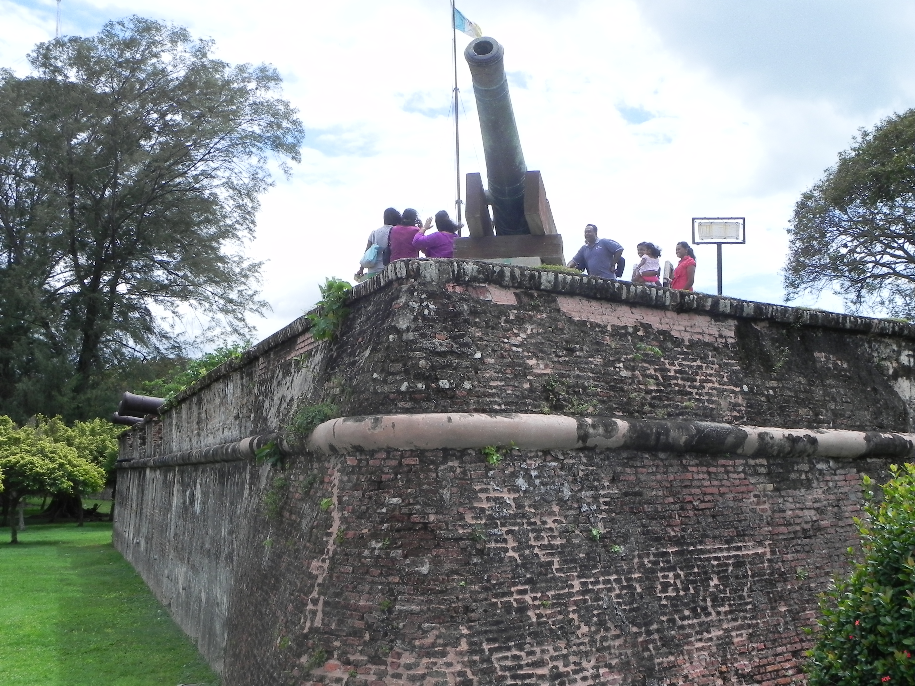 Fort Cornwallis, Georg Town Penang (Malaysia)